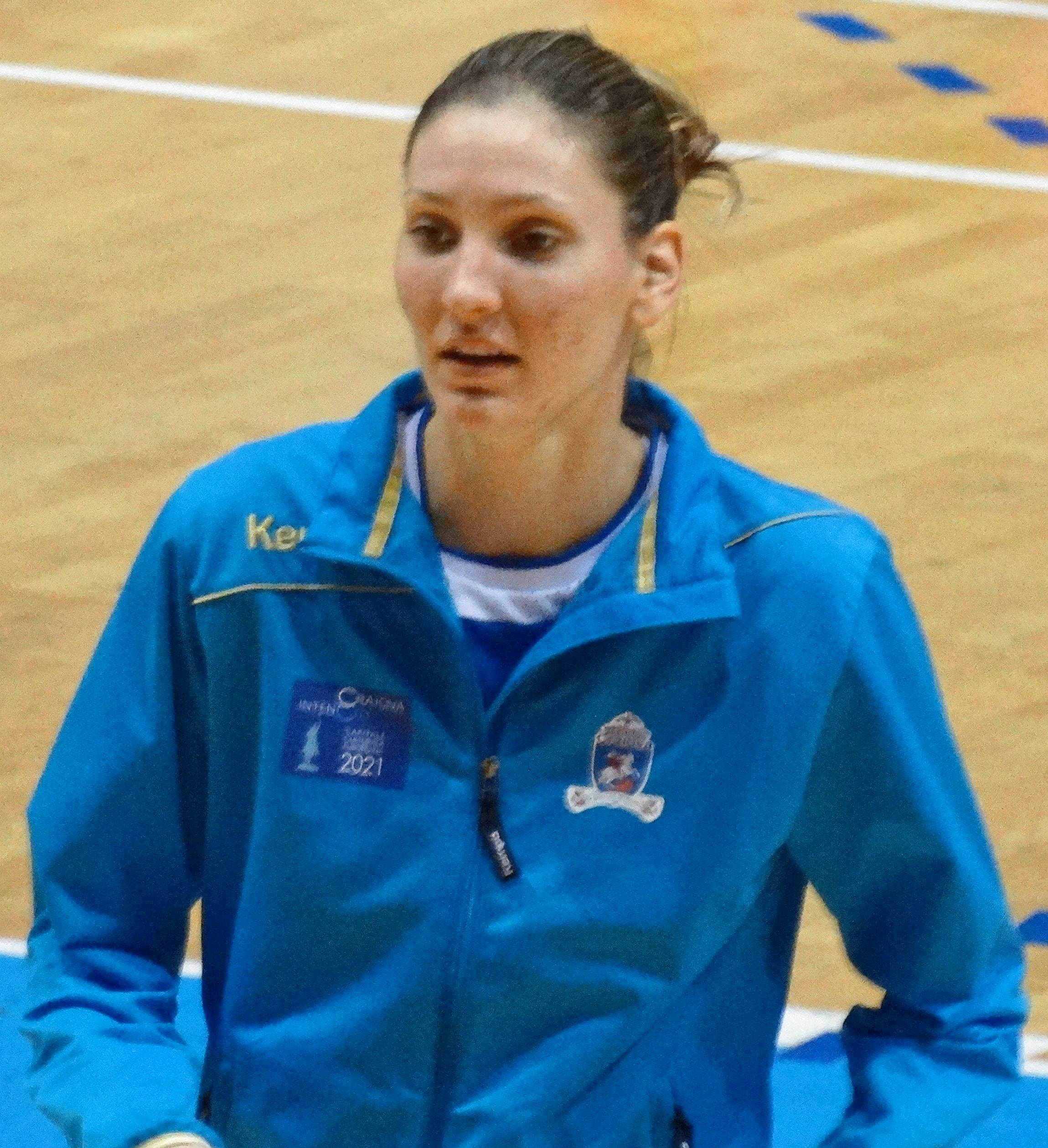 Serbian handball player Jelena Živković in August 2015, wearing the kit of the Romanian club SCM Craiova.